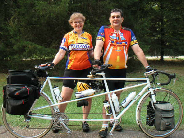 Two people with tandem bicycle. Taken by Andrew Dressel while touring on the Nachez Trace during summer of 2002